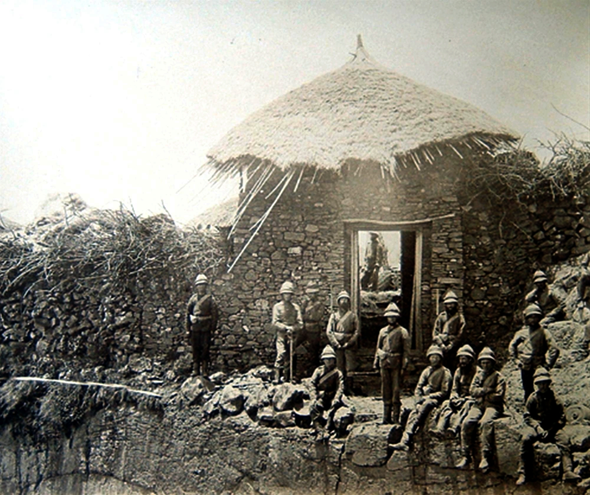 Sentry gate above Koket-Bir gate at the Fortress of Magdala in April 1868